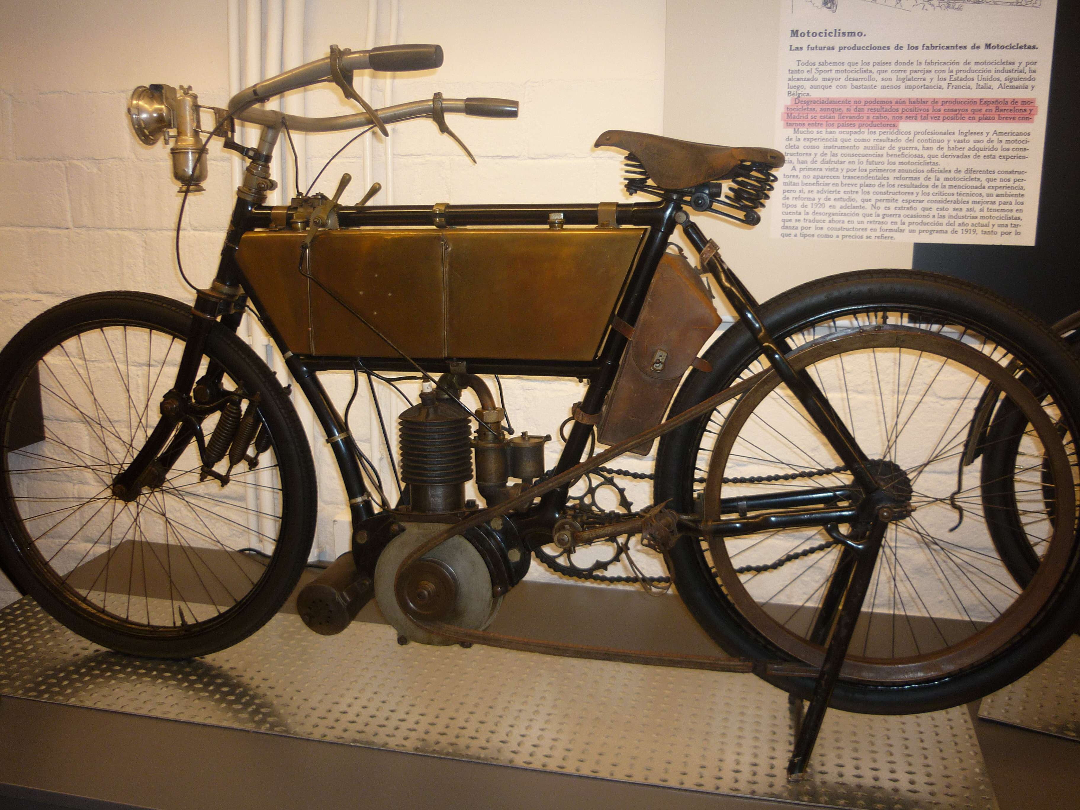 Villalbí 430cc (1904), the first motorcycle made in Catalonia. Museu de la Moto de Barcelona (Catalonia).